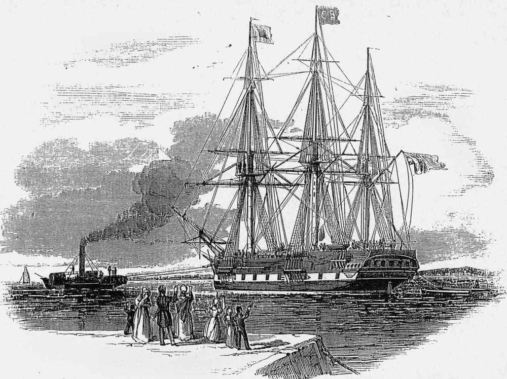 St Vincent (ship) Hand drawn picture of St Vincent. The St. Vincent departed Deptford England on the 11th April 1844, thence to Plymouth and Cork and arrived at Botany Bay, Sydney on the 31st July 1844.